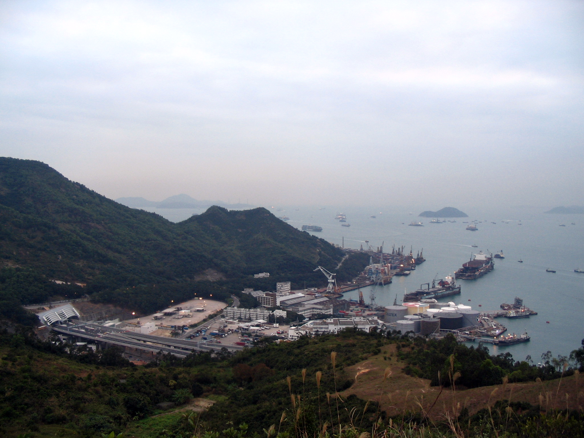 Photo of Sai Tso Wan, Tsing Yi